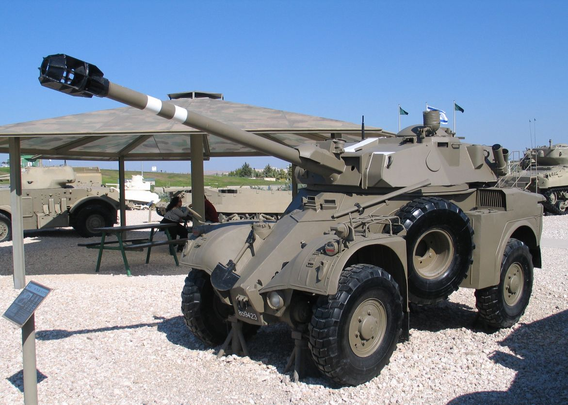 Description: Panhard AML 90 armored car in Yad la-Shiryon Museum, Israel. Source: Photo by me, User:Bukvoed.